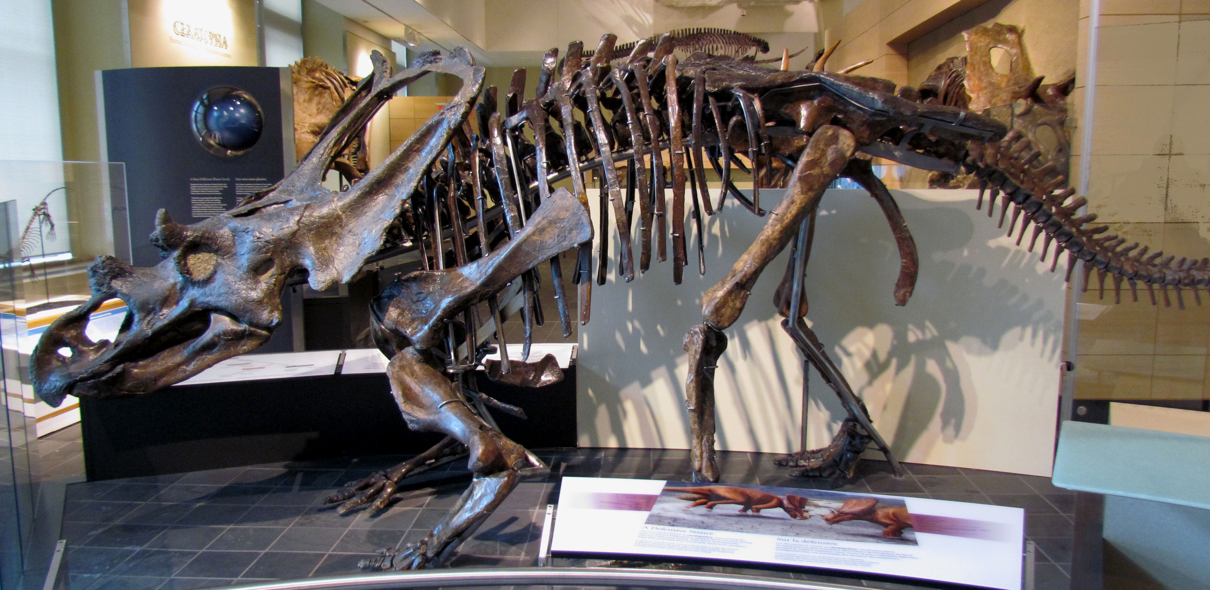 Chasmosaurus russelli, at Canadian Museum of Nature, Ottawa, Ontario, Canada